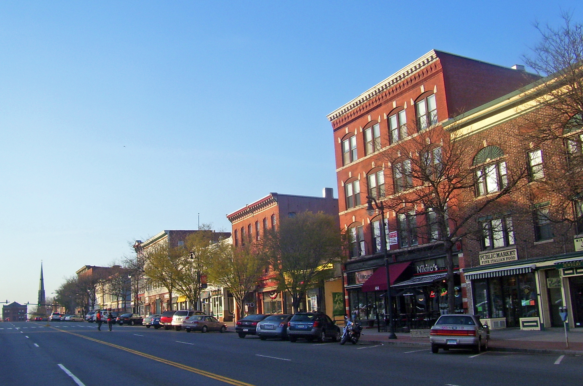 Looking north along Main Street, in Middletown, CT, USA from near CT 66